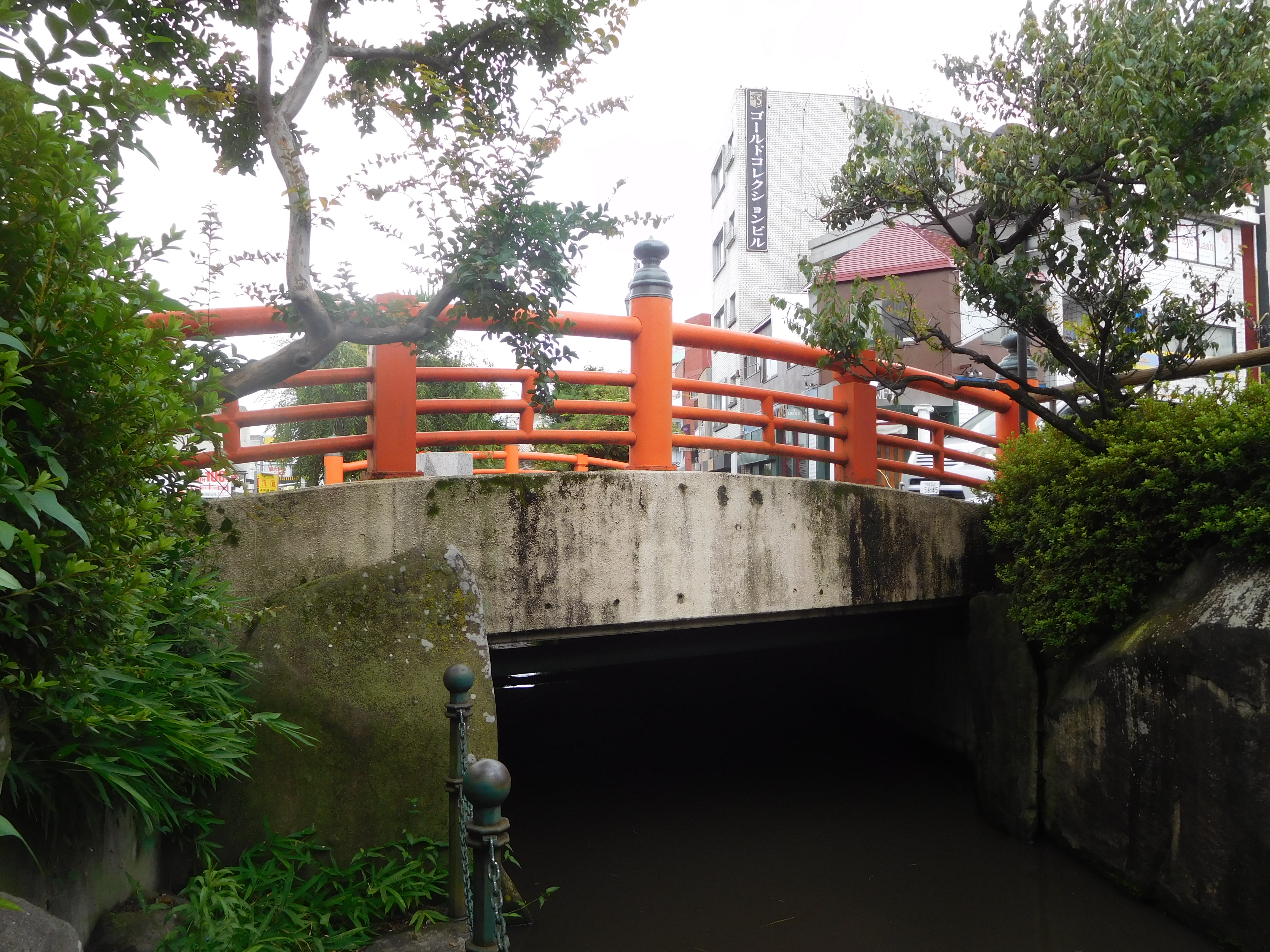 This is Mihashi Bridge in Utsunomiya, Tochigi, Japan.